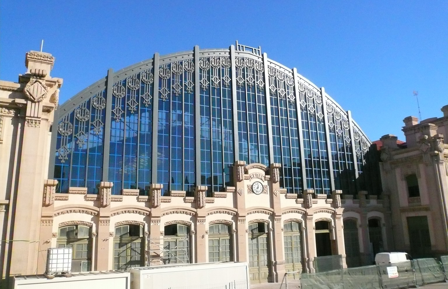 Estació del Nord, Barcelona, Catalonia.